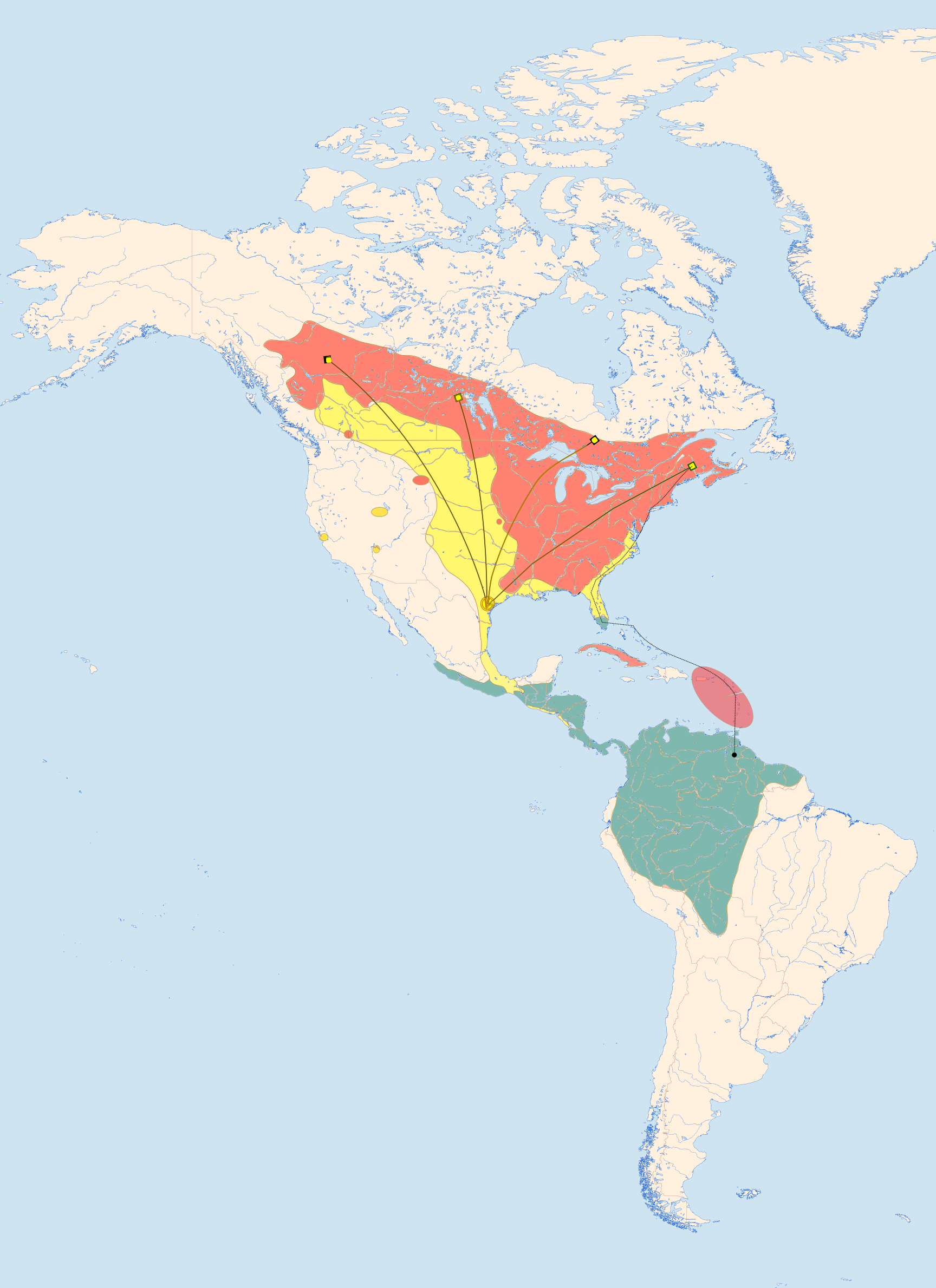 Buteo platypterus - Distribution. Pink: Breeding (Summer); green: Winter range; yellow: Senn on migration; lines: main migration routes